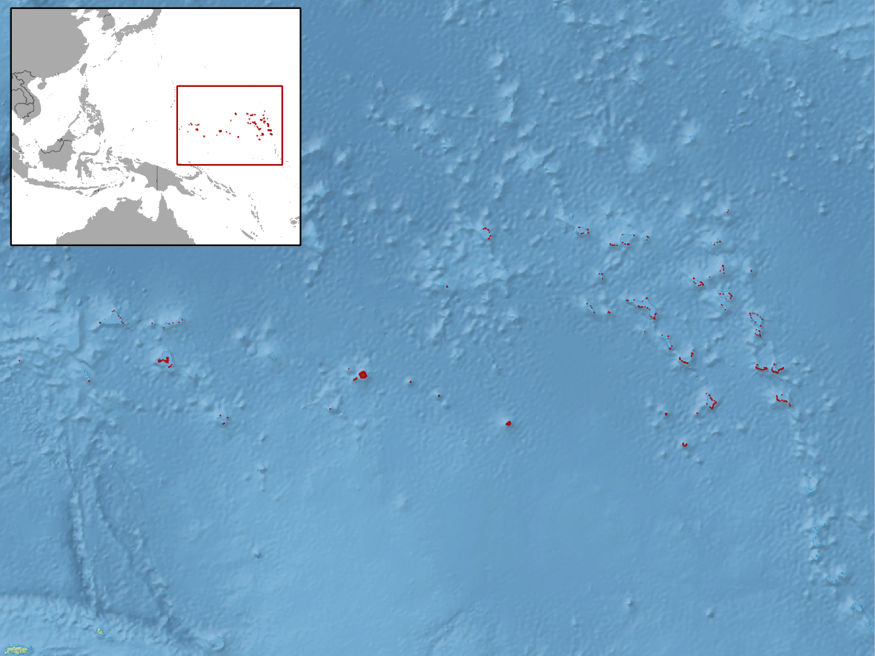 geographic distribution of Emoia boettgeri